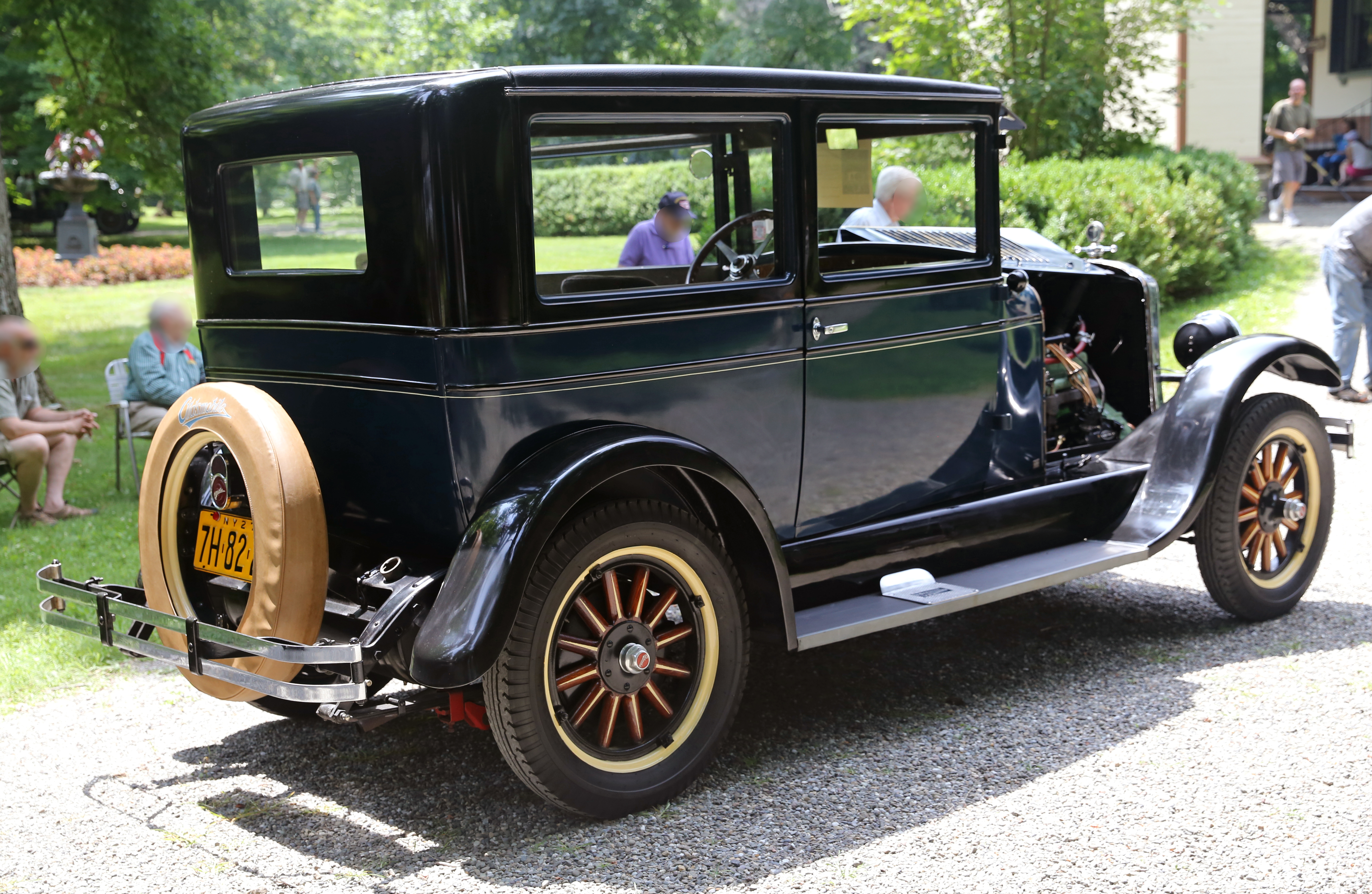 A 1927 Oldsmobile Series E two-door sedan in blue. This is the Model 30-E2S, of which 12,422 were built. The 30-E was Oldsmobile's only offering for 1927.